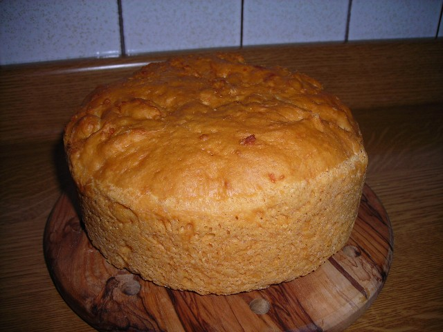 Easter cheese cake, torta di pasqua, typical of Umbria, Italy